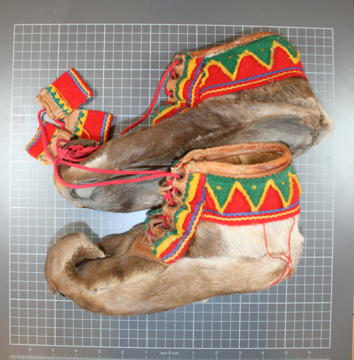 Traditional Sami shoes made from reindeer skin.